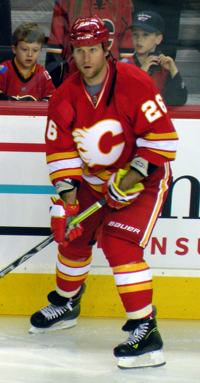 Calgary Flames defenceman Dennis Wideman prior to a National Hockey League game against the Phoenix Coyotes.